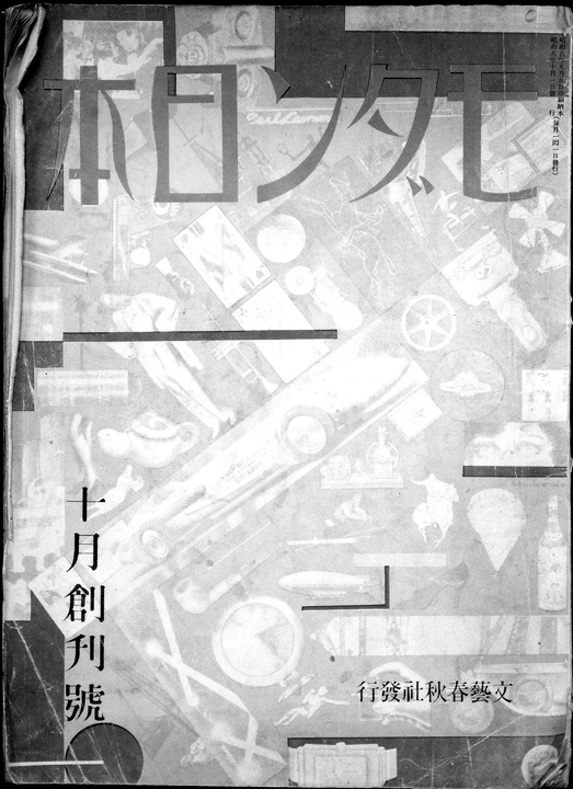 Cover of the first issue of Modan Nippon (Modern Nippon)